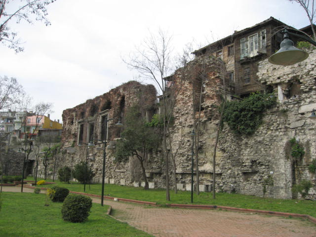 View of the ruined Bucoleon (or Boukoleon) Palace on the shores of the Bosphorus, Istanbul.